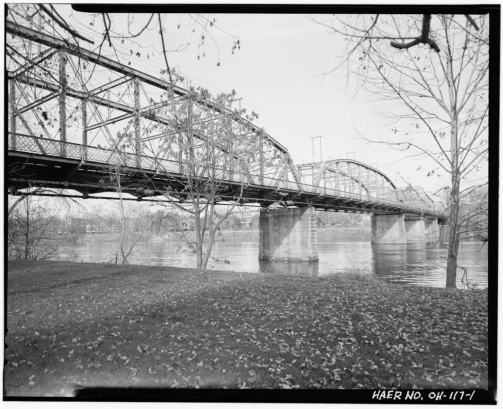 The Putnam Street Bridge, located in Marietta, Ohio. The bridge was built in 1913.